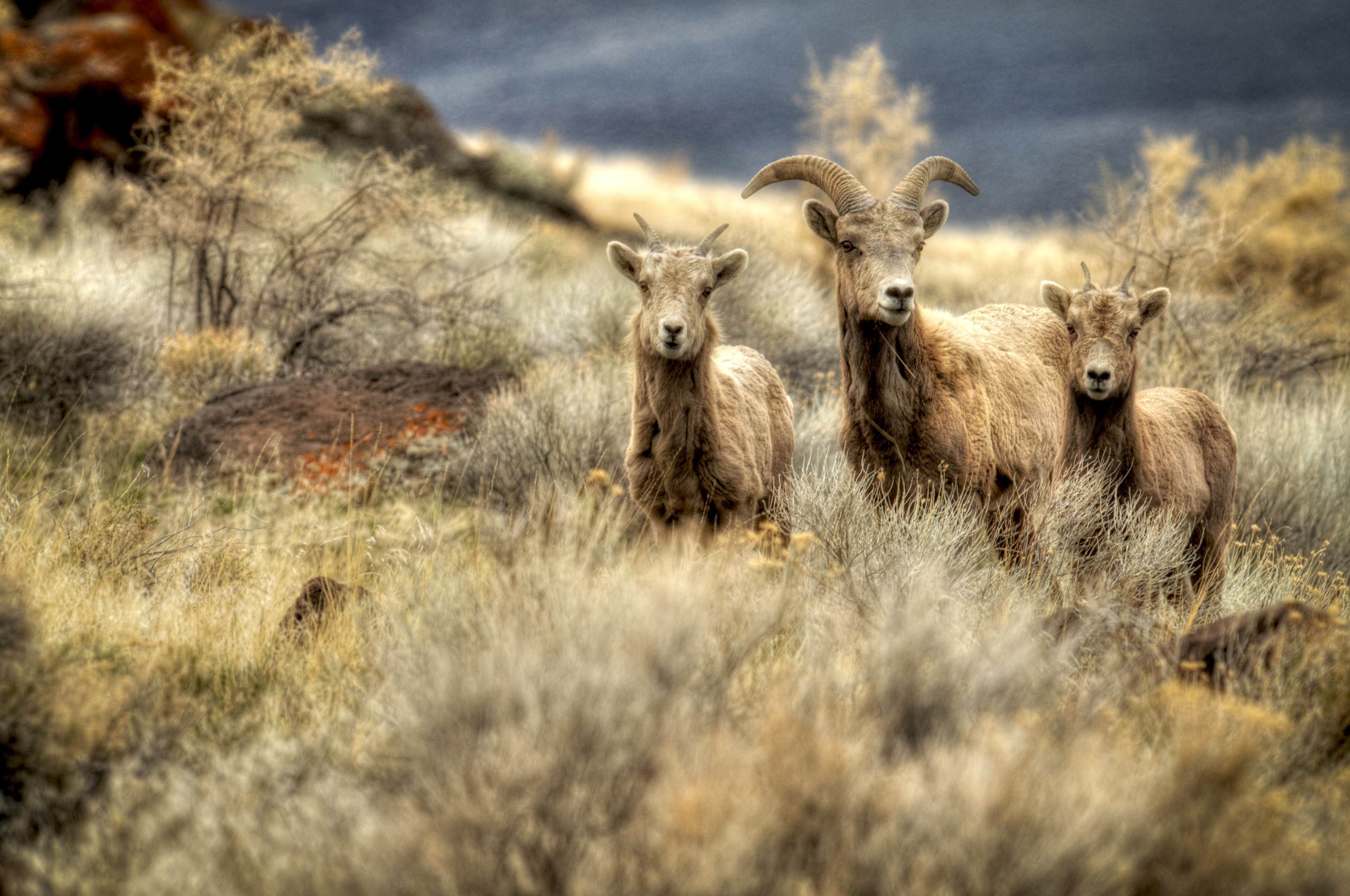 Bighorn sheep climbing along Abert Rim in South central Oregon in Lake County. Abert Rim and Lake Abert are both great places to find wildlife. These public lands are managed by the Lakeview District of the Bureau of Land Management. Photo: Kevin Abel, Lakeview District